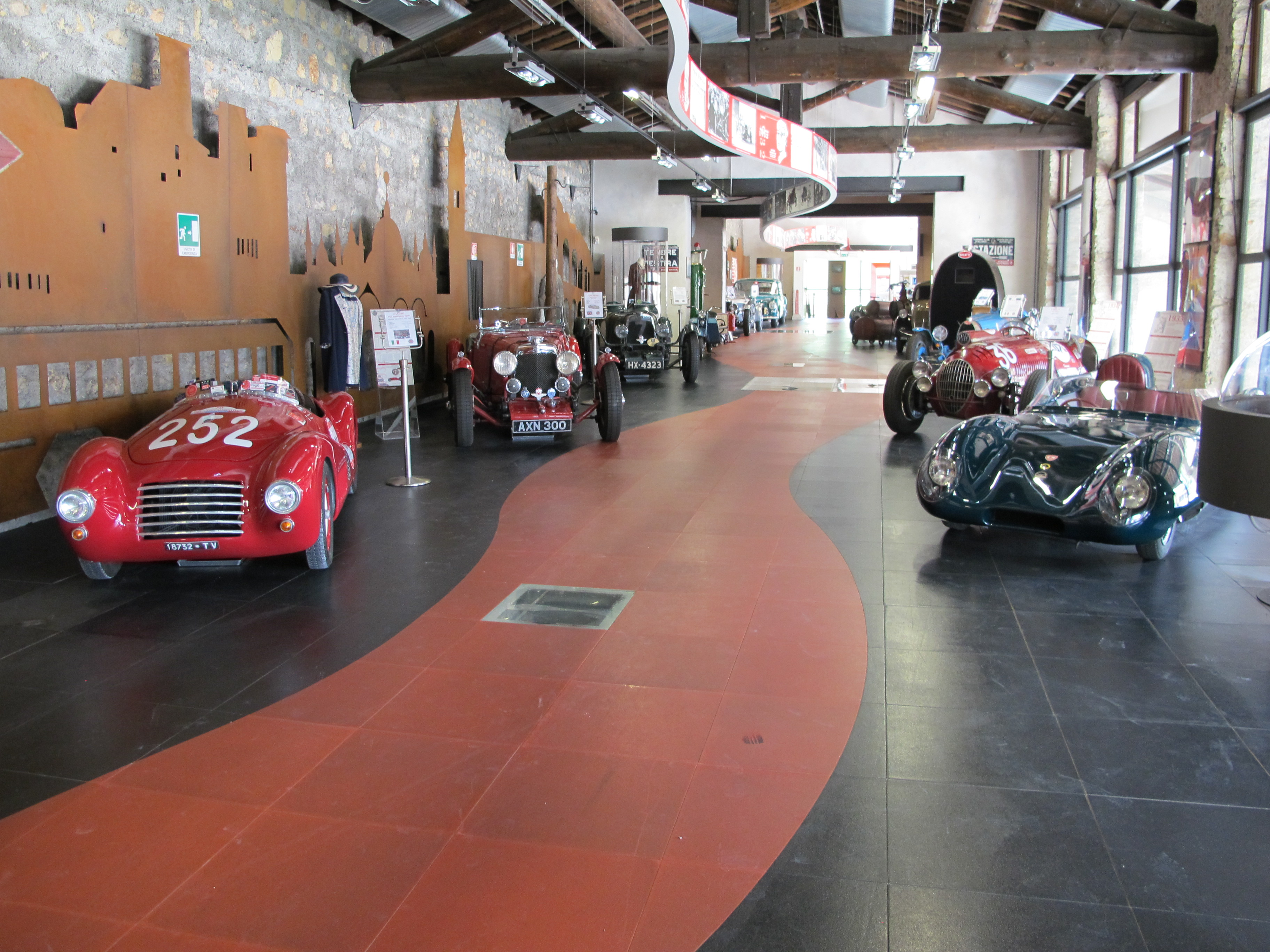 The Mille Miglia Museum in San Eufemia, near Brescia Italy